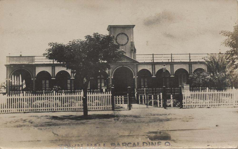 Town Hall at Barcaldine, ca. 1920. The foundation stone for the Barcaldine Town Hall was laid on 12 July 1911 and the building officially opened in February 1912.